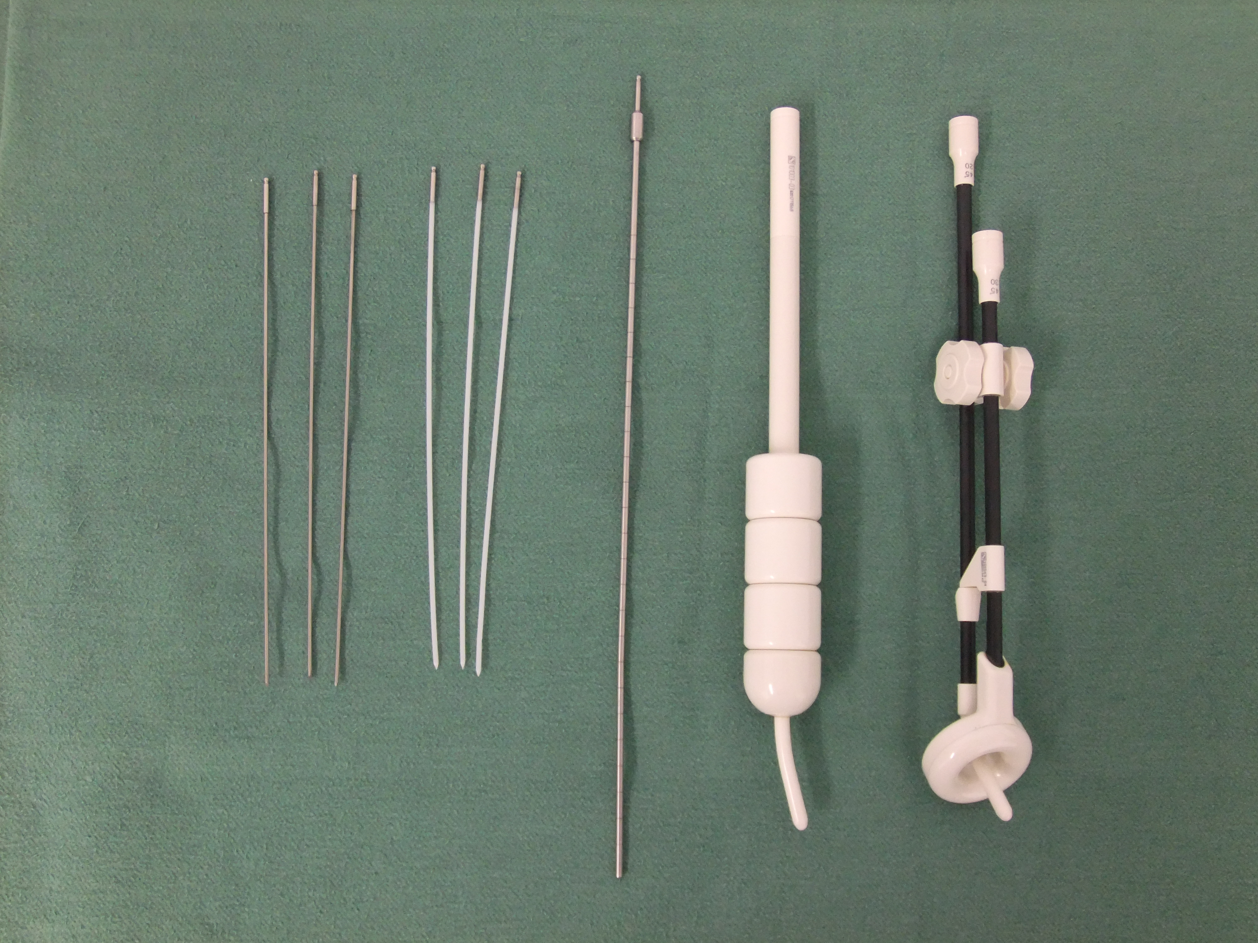 Applicators for afterloading therapy: needles for interstitial application, gynecological applicators